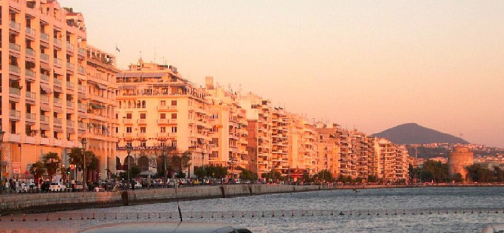 Sunset in Thessaloniki's seaside Nikis Avenue. View from the Port.